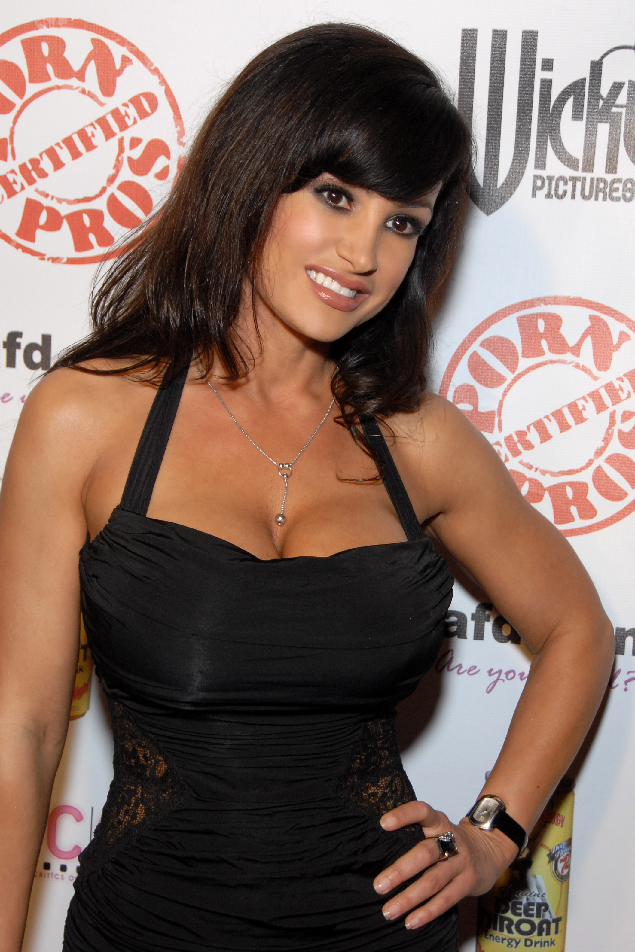 Lisa Ann attending the XRCO Awards, Hollywood, CA on April 16, 2009